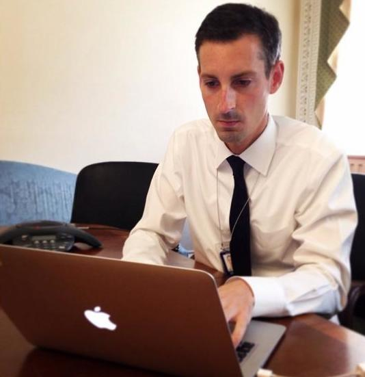 Edward (Ned) Price, live blogging at The White House. Original caption: “Ned Price at @NSCPress answering your questions during today's #USAfricaChat with the @ONECampaign. 2:48 PM - 7 Aug 2014”